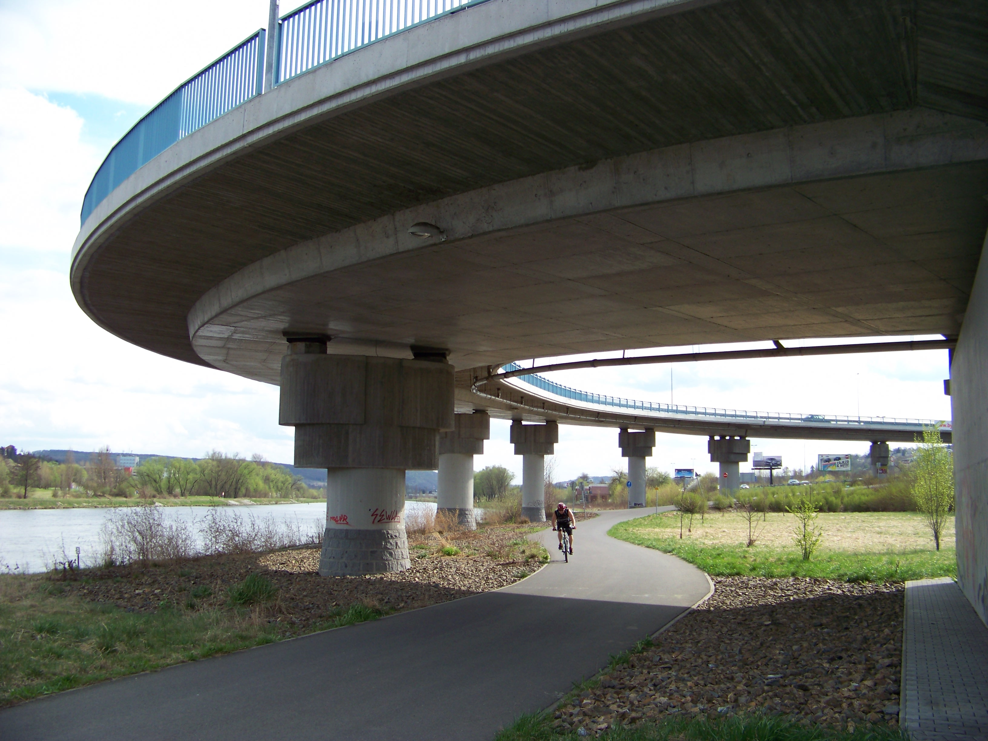 Prague-Malá Chuchle, the Czech Republic. A bridge of Mezichuchelská street over Strakonická street, a bikeway A1.